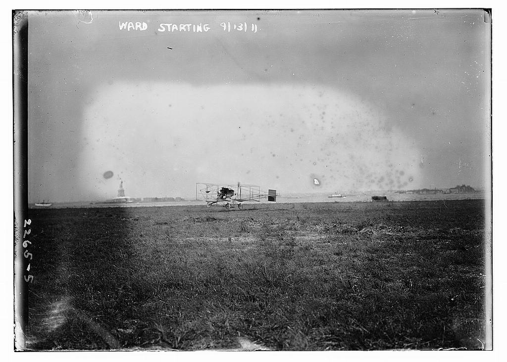 Ward starting 9/13/11 (LOC) Bain News Service,, publisher. James J. Ward starting 9/13/11 1911 Sept. 13 (date created or published later by Bain) 1 negative : glass ; 5 x 7 in. or smaller. Notes: Title and date from data provided by the Bain News Service on the negative. Photo shows aviator James J. Ward's Curtiss Pusher biplane taking off from Governor's Island, New York at the start of the Hearst Transcontinental Flight. (Source: Flickr Commons project, 2009 and New York Times, September 13, 1911) Forms part of: George Grantham Bain Collection (Library of Congress). Format: Glass negatives. Repository: Library of Congress, Prints and Photographs Division, Washington, D.C. 20540 USA, General information about the Bain Collection is available at Persistent URL: Call Number: LC-B2- 2265-5